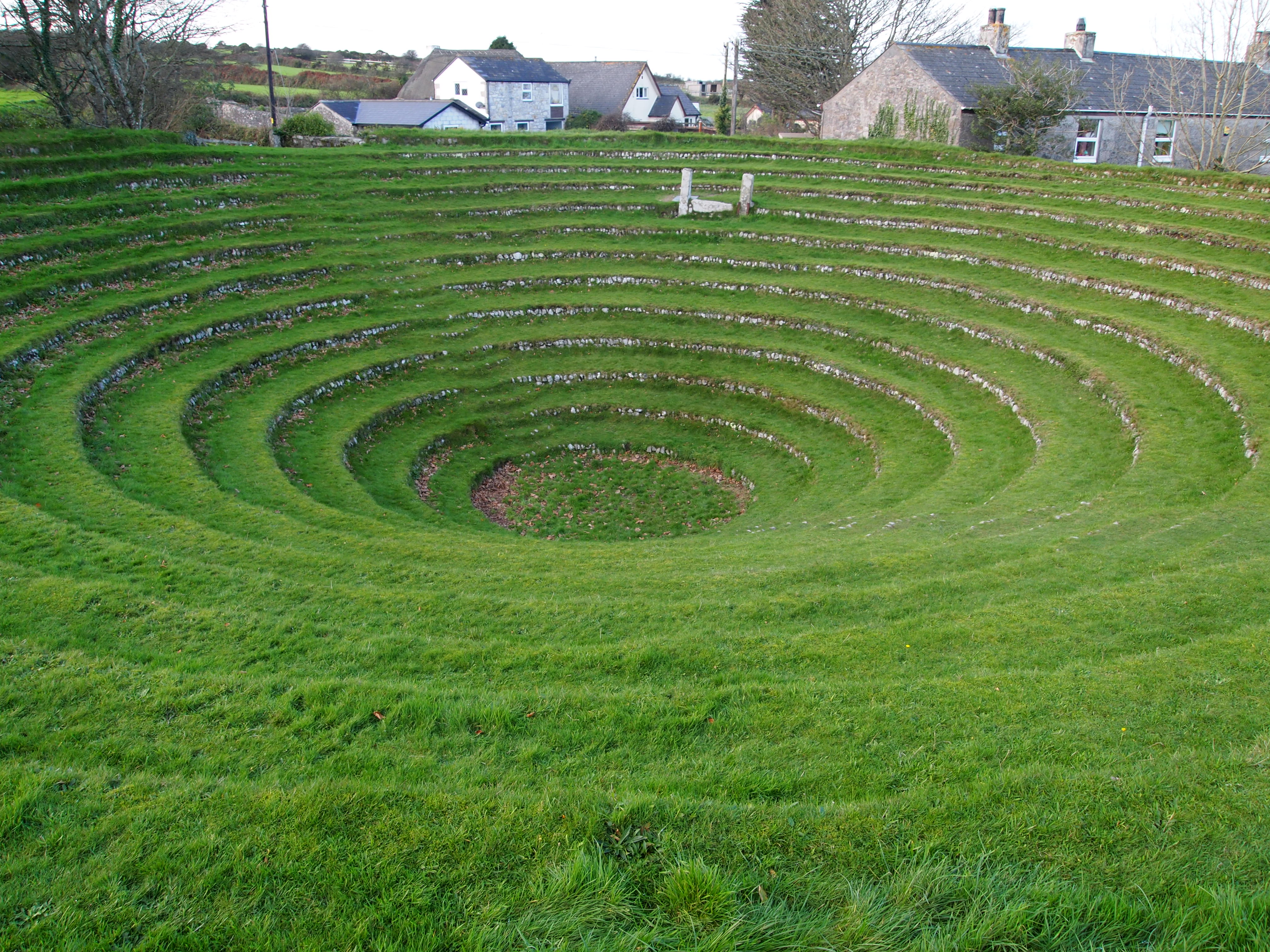 Gwennap Pit Cornwall UK where John Wesley preached 18 times between 1762 and 1789